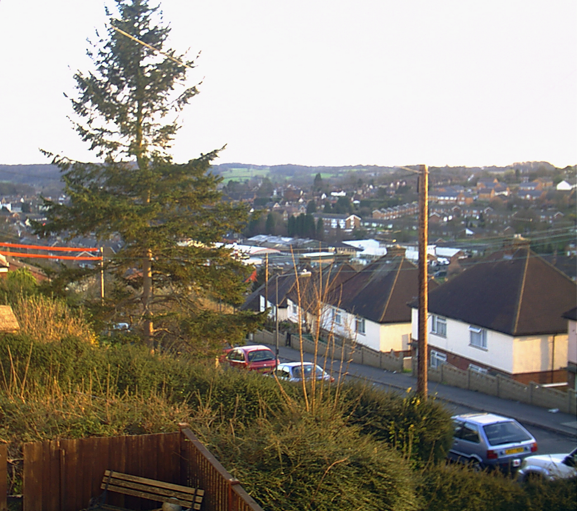 A picture of Chesham. Taken by me, 2005.